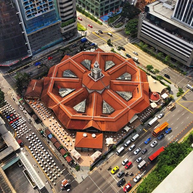 Lau Pa Sat (Telok Ayer Market), Singapore, viewed from above.